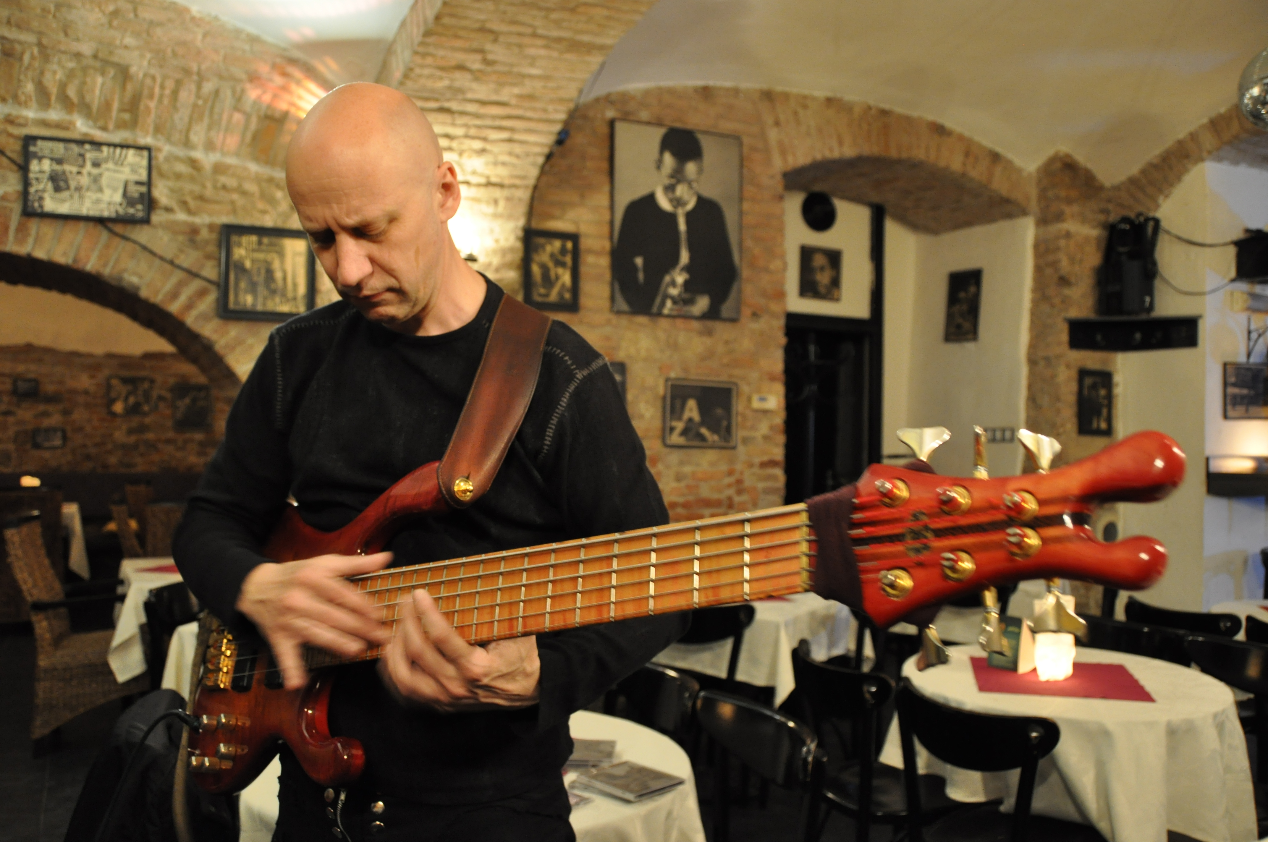 The Czech bass guitar player Richard Scheufler rehearsing before a concert